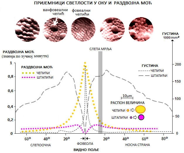 ПРИЈЕМНИЦИ СВЕТЛОСТИ У ОКУ